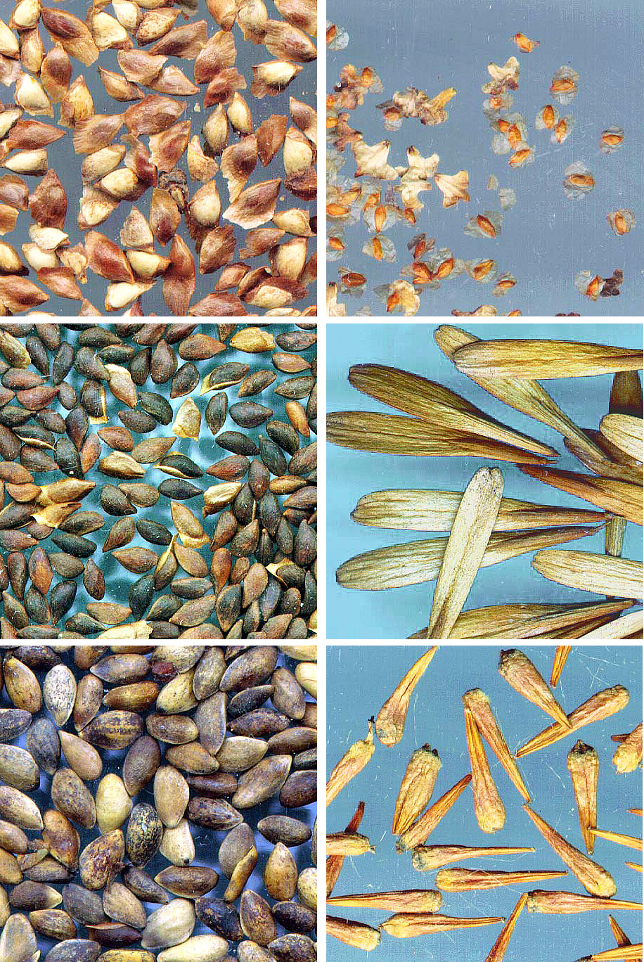 Orthodox seeds from temperate zone